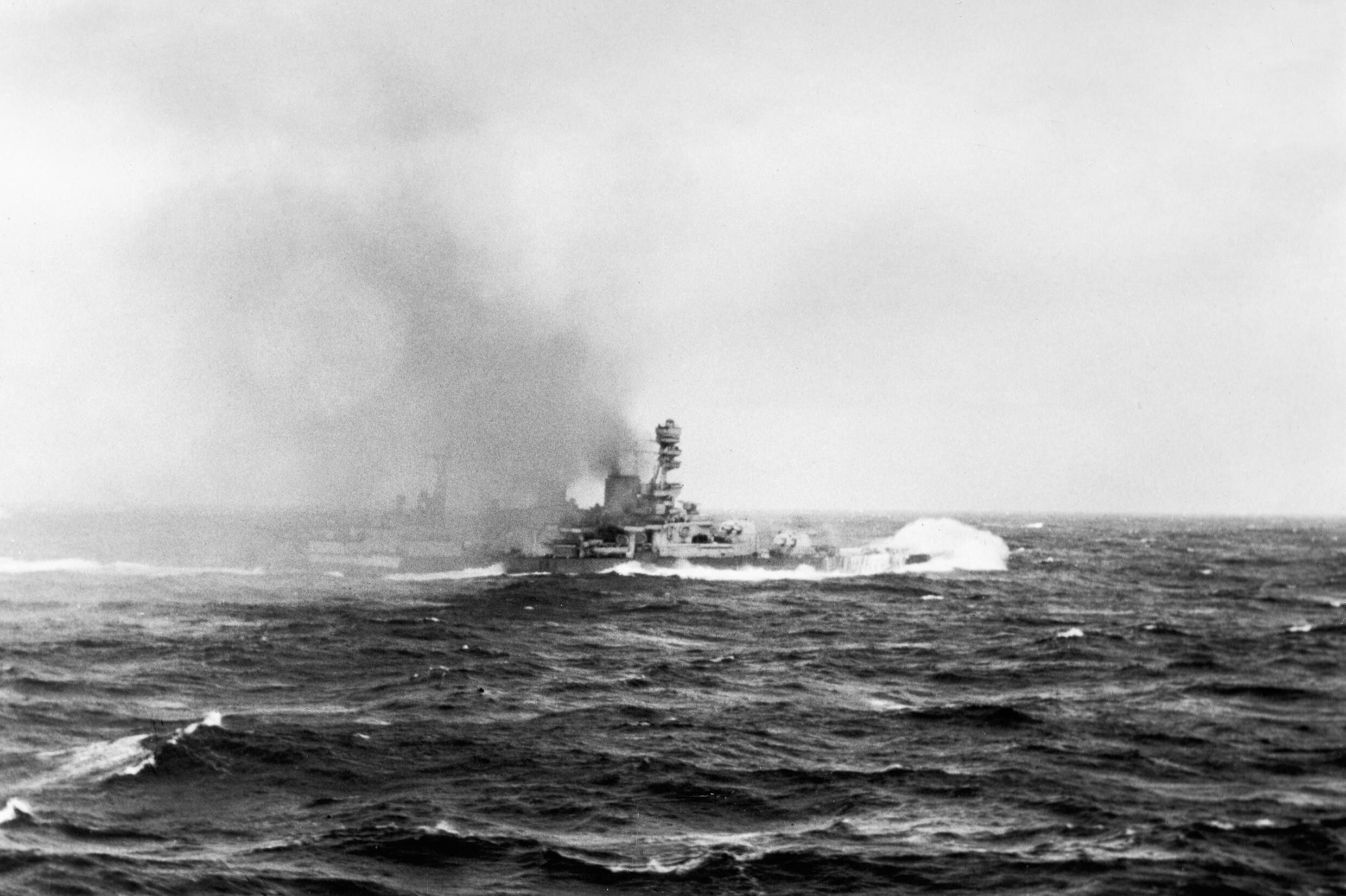 HMS REPULSE, 1940.